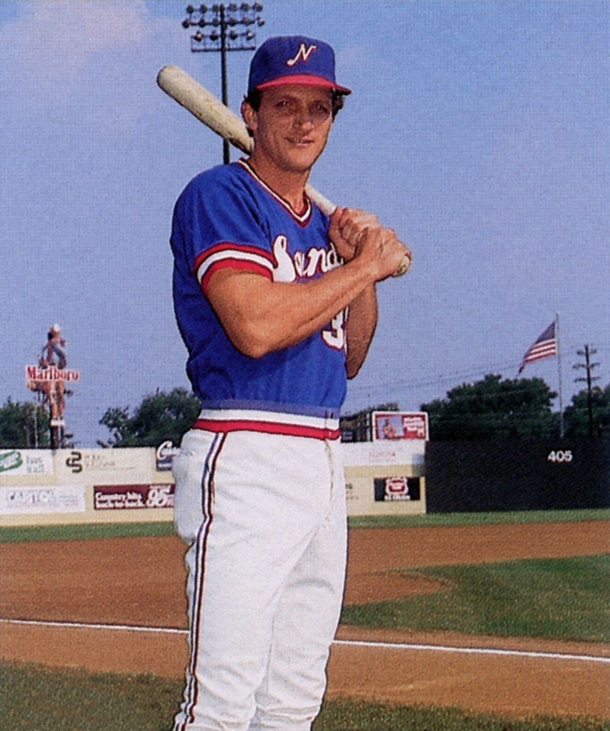 Outfielder Gene Roof of the 1986 Nashville Sounds Minor League Baseball team of the American Association